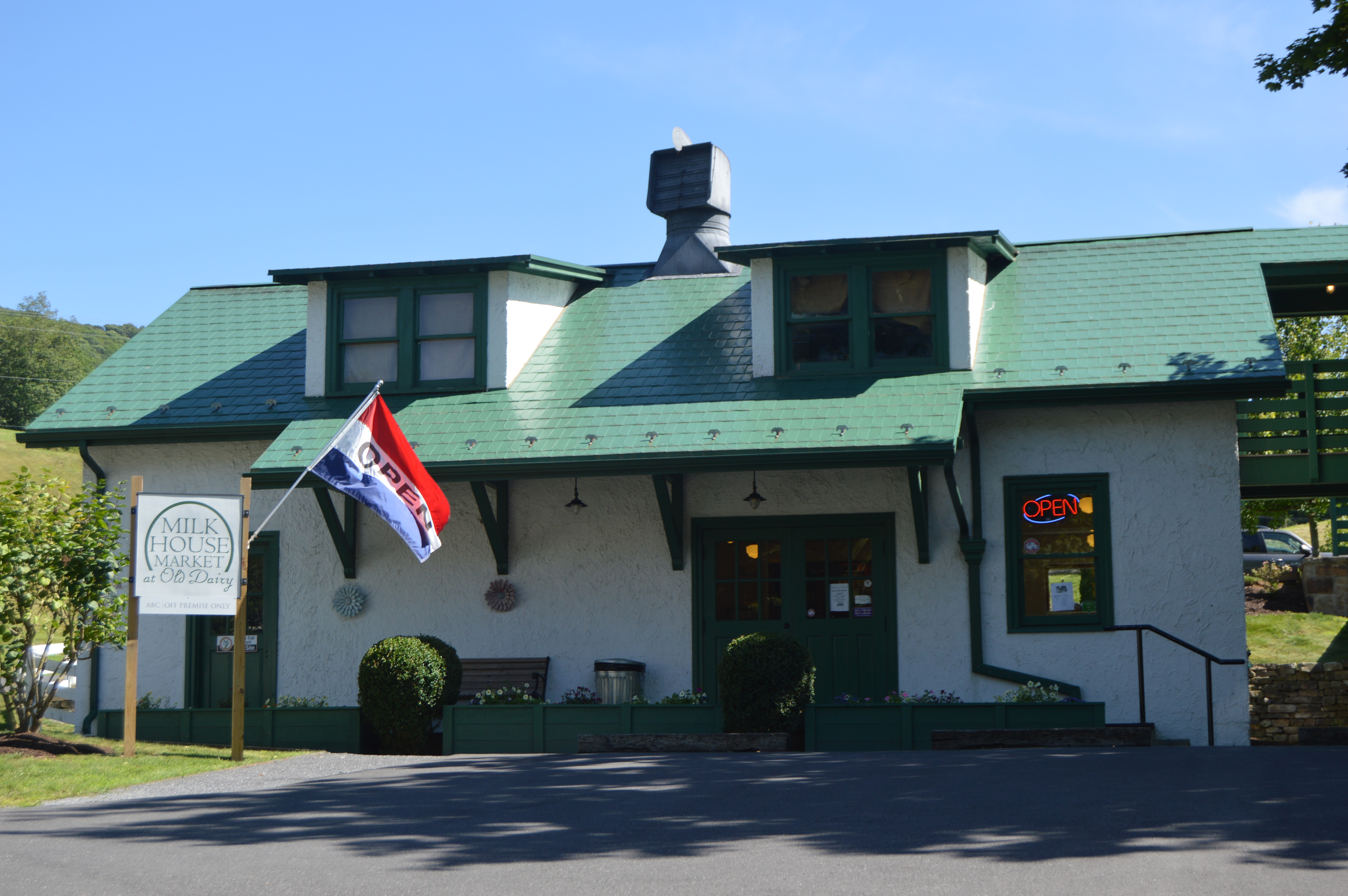 Front of the bottling building in the Homestead Dairy Barns complex, located on U.S. Route 220 northeast of Hot Springs in Bath County, Virginia, United States. Built in 1928, the complex is listed on the National Register of Historic Places as a historic district.